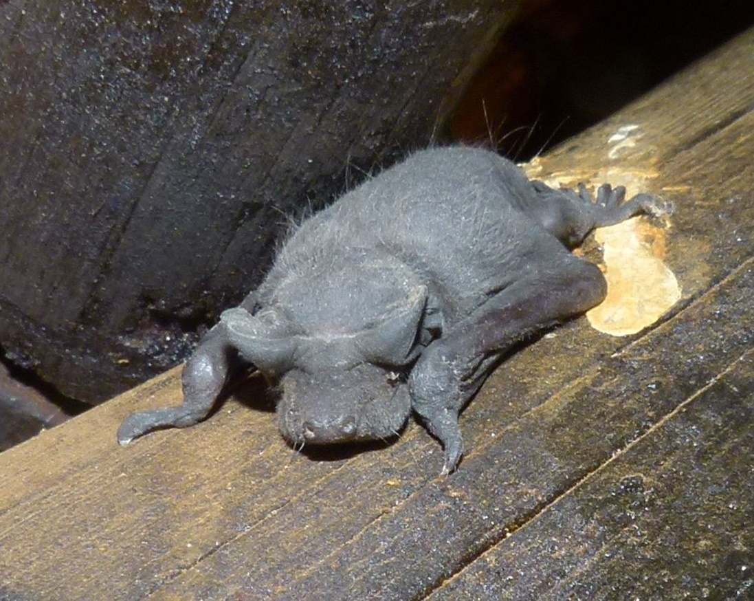 Timbavati Picnic Site, Kruger NP, SOUTH AFRICA